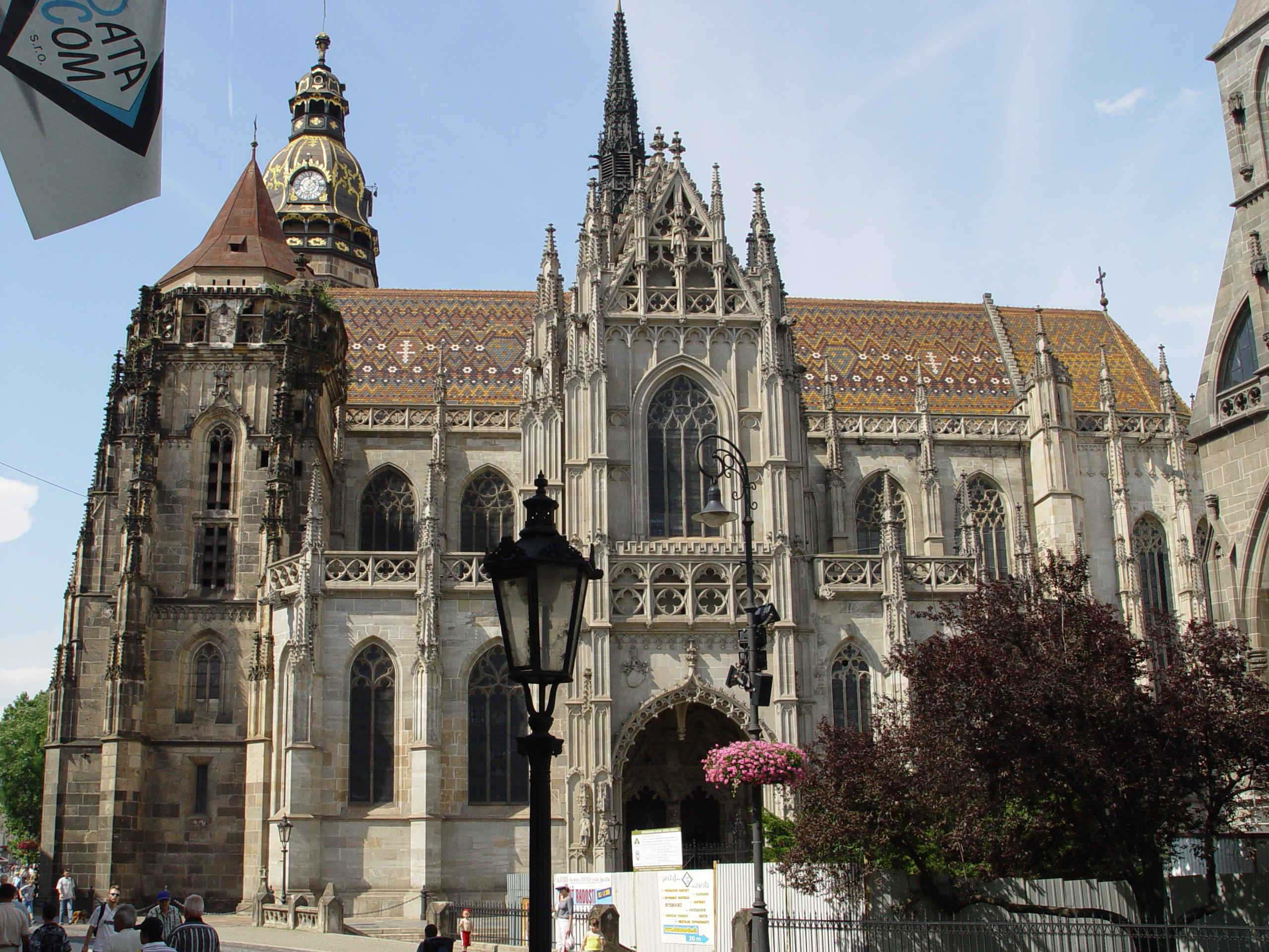 Slovakia, Košice, St. Elizabeth's Catedral on Main StreetSlovenčina: Slovensko, Košice, Dóm sv. Alžbety na Hlavnej ulici